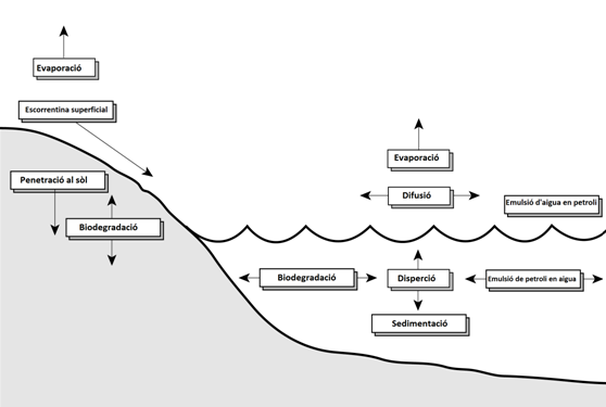 Processos fisico-químics del petroli